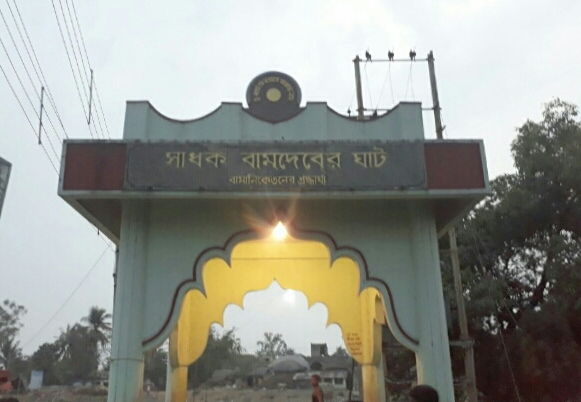 Memory of Sadhak Bamakhyapa, Tarapith